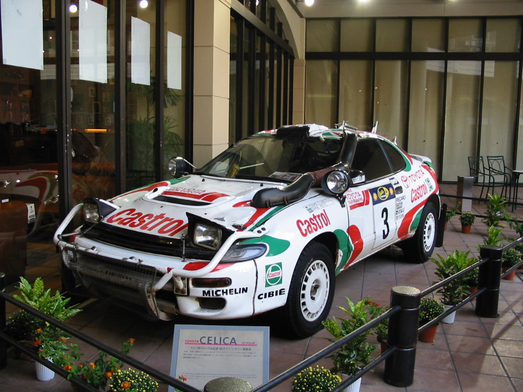 5th Toyota_Celica Turbo 4WD Group A (ST185) 1995 Safari Rally winner taken in Showroom of Toyota MEGAWEB.